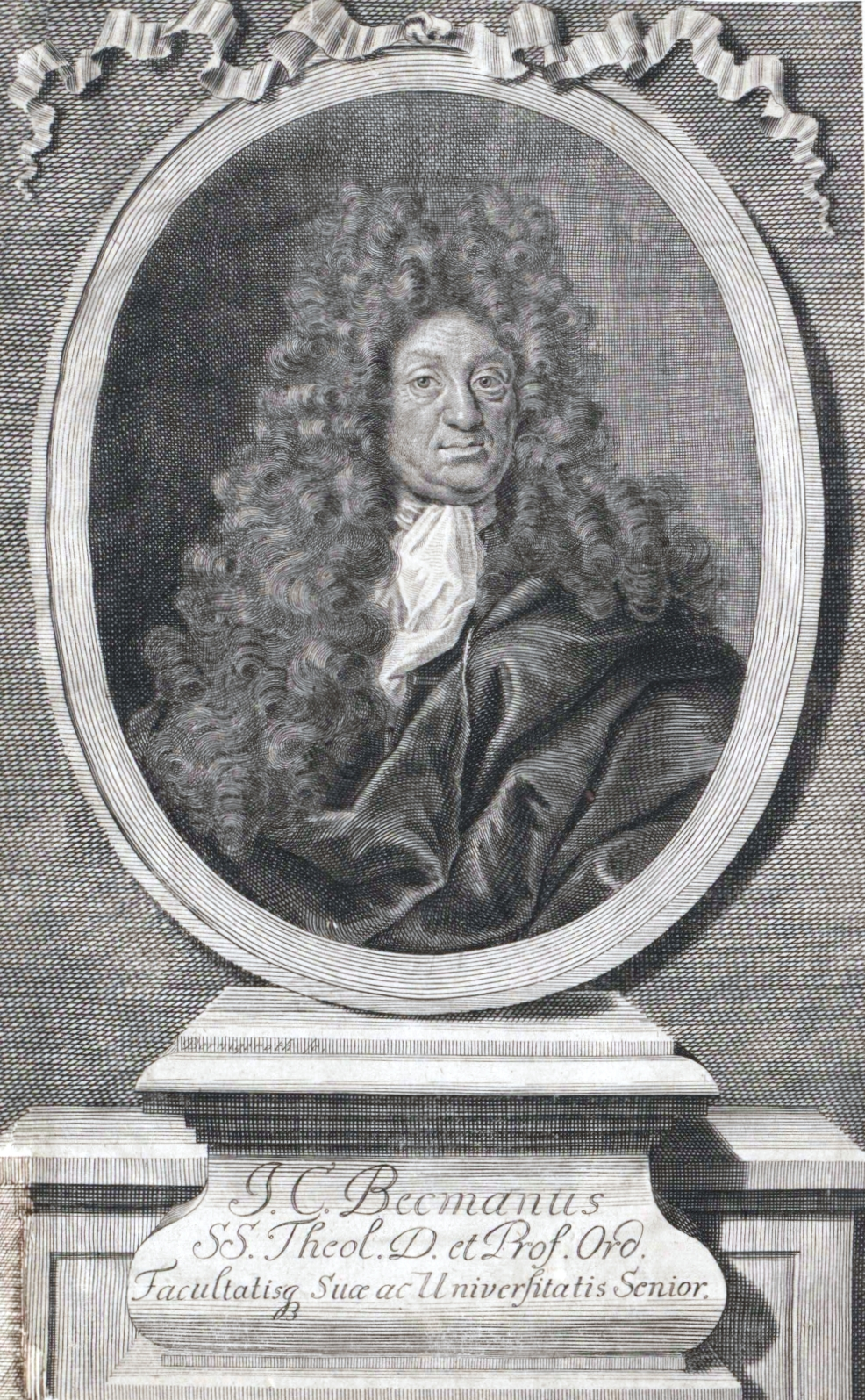 Portrait of Johann Christoph Bekmann